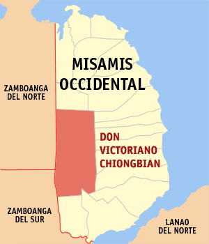 Map of the Misamis Occidental showing the location of Don Victoriano Chiongbian